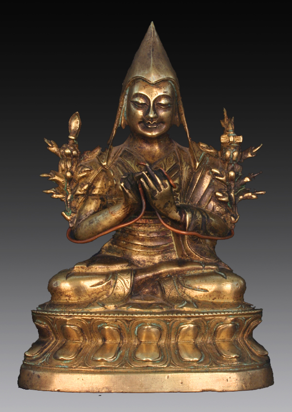 Je Tsongkhapa, (Bogd Zonkhova to Mongolians) was born to a Mongol father and a Tibetan mother during a time when Mongolia conquered his birthplace in eastern Amdo.